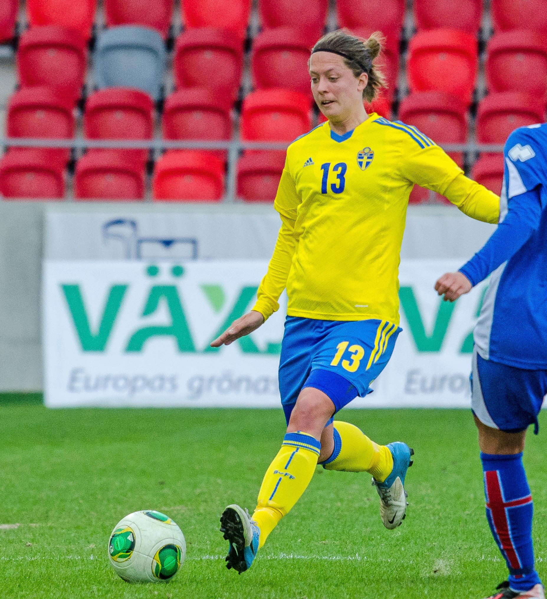 Swedish defender Lina Nilsson playing for the Swedish Women's National team in the 2-0 victory over Iceland at Myresjöhus Arena, 6 April 2013.